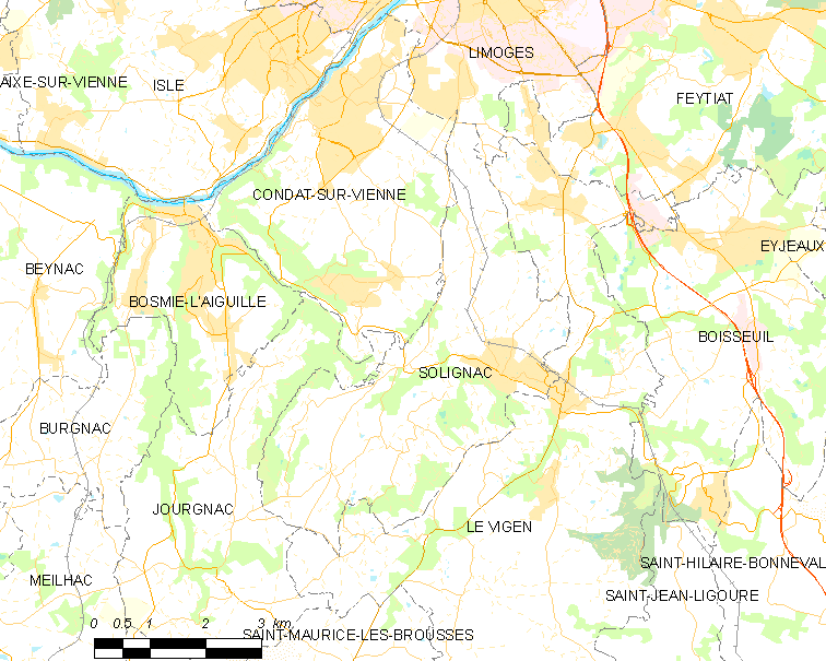 Map of French municipality Solignac